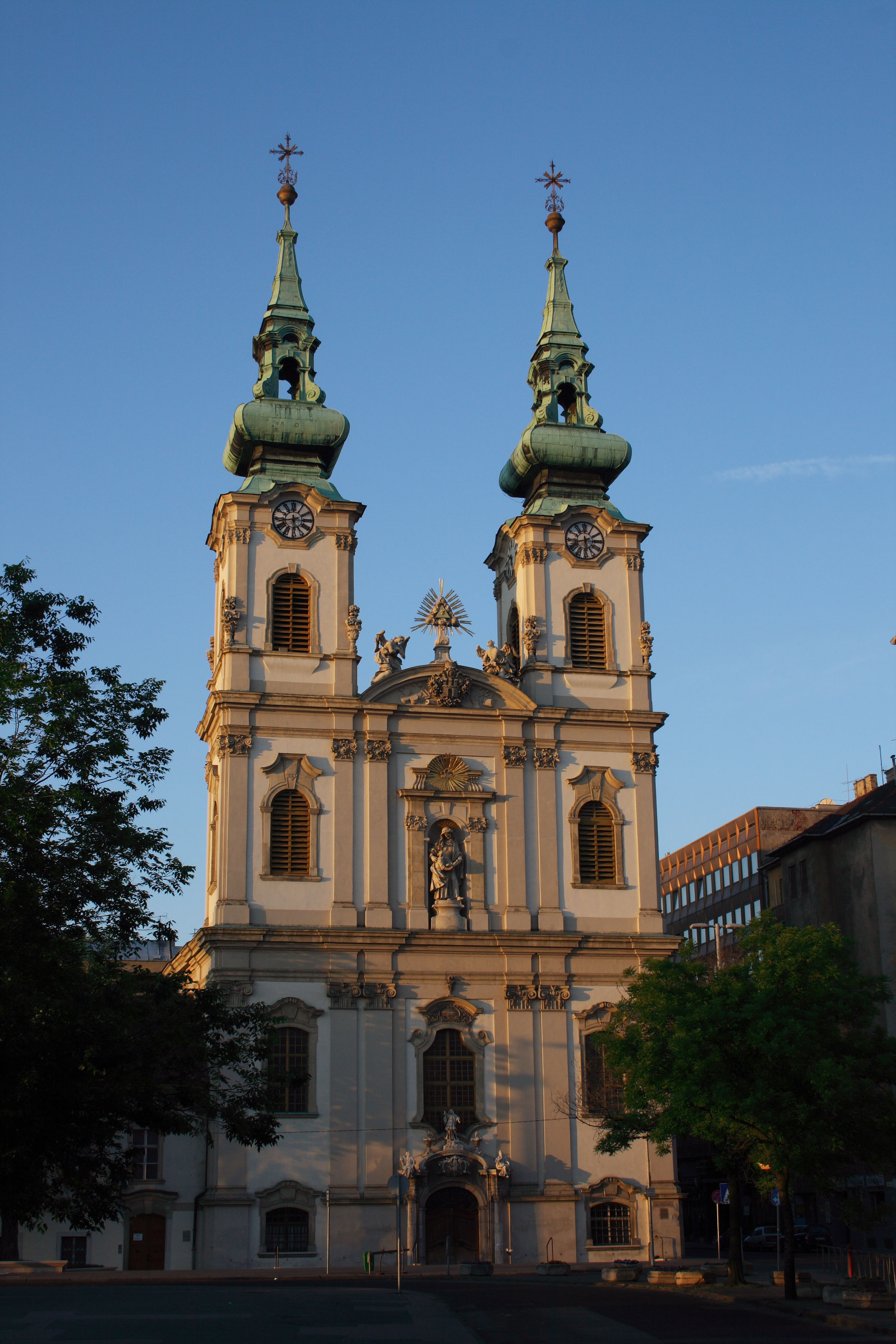 The church of St Anne (built in 1762), at sunrise, Batthyány square, Budapest I. district.